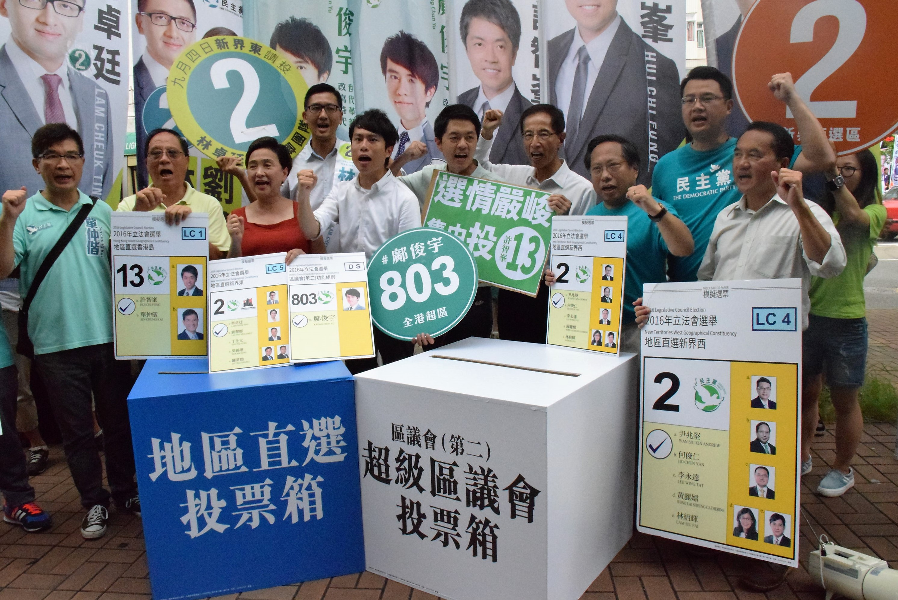 Democratic Party's election rally in the 2016 LegCo election.